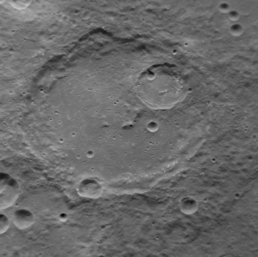 Andal crater on Mercury. MESSENGER Narrow Angle Camera image. Emission Angle: 27.7 Incidence Angle: 57.9 Latitude: -47.8 Longitude: 322.4 Phase Angle: 85.6